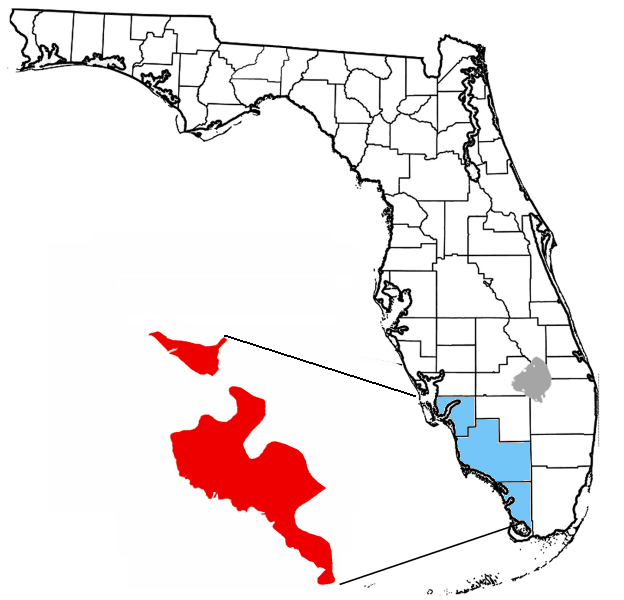 Location of the Tamiami Formation in Florida